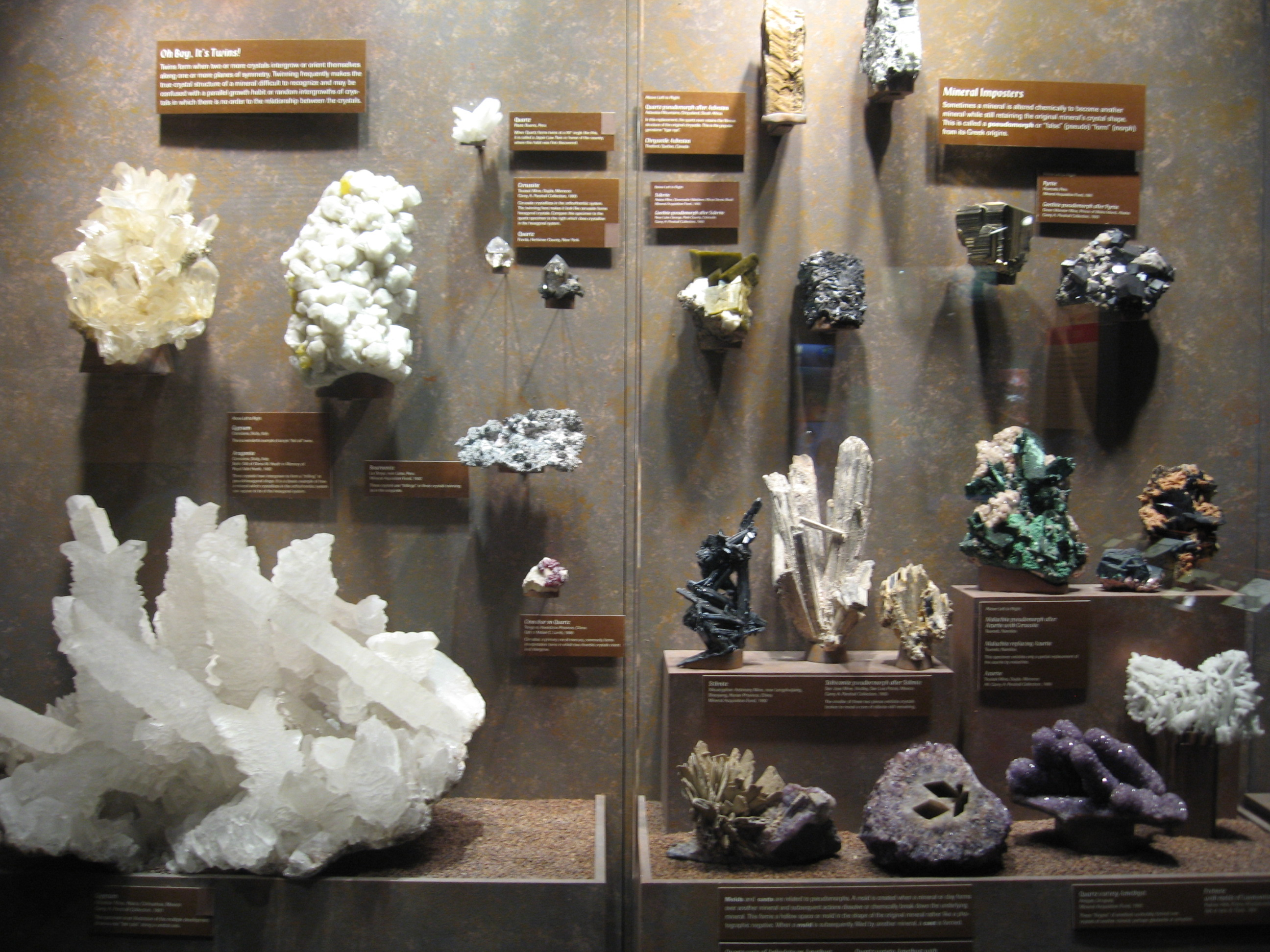 Display case with mineral crystals